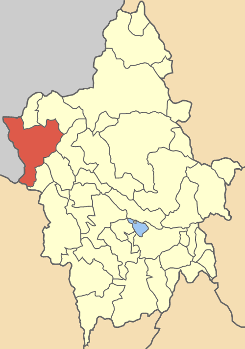 Position of Delvinaki Municipality (Δήμος Δελβινακίου) in Ioannina prefecture (Νομός Ιωαννίνων), Greece